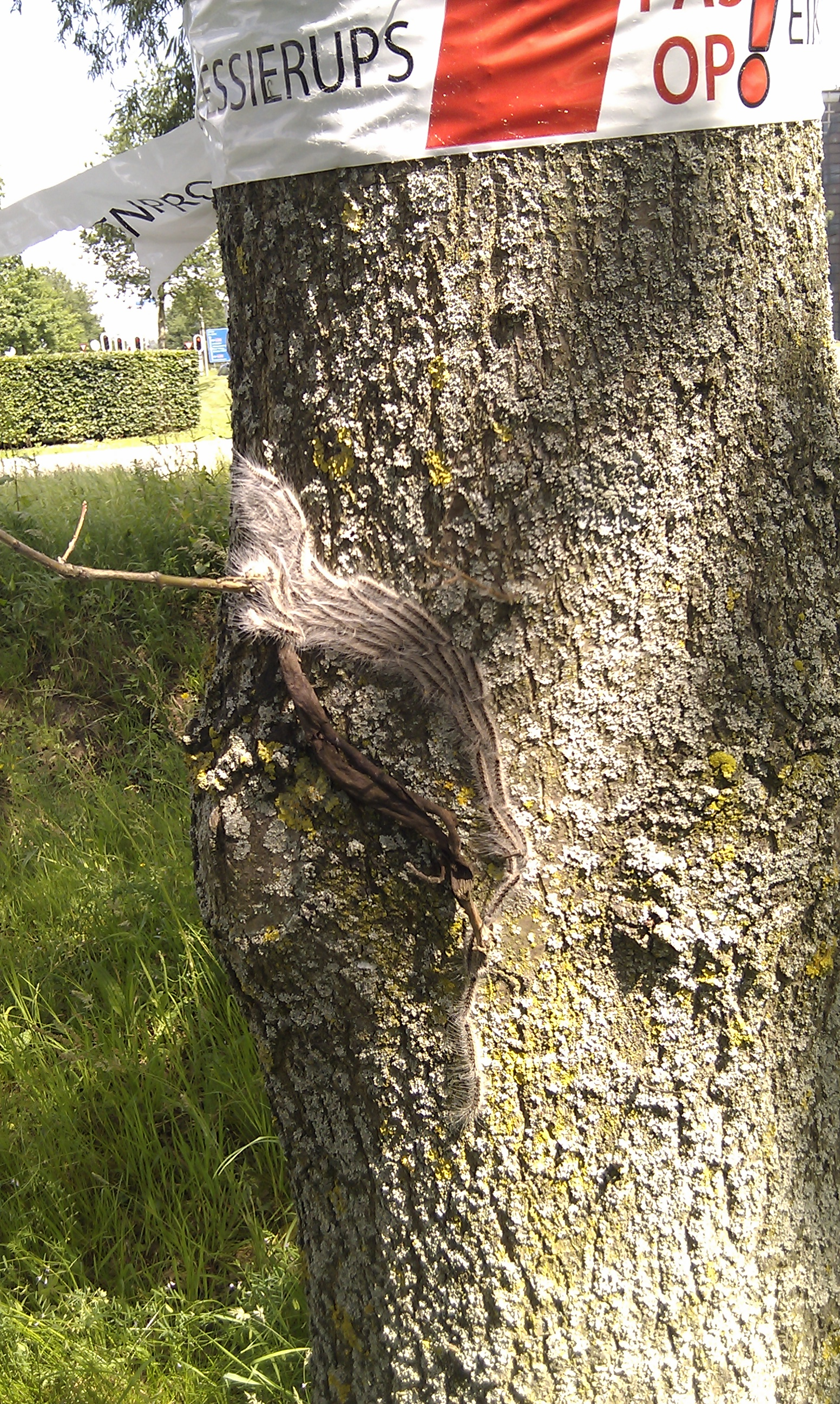 Processionary caterpillars moving in 'procession'.